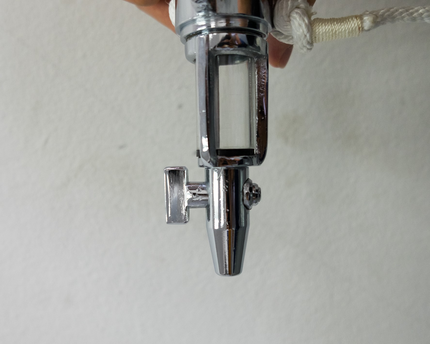 Cod end-an outlet valve with a bucket for collecting the water sample